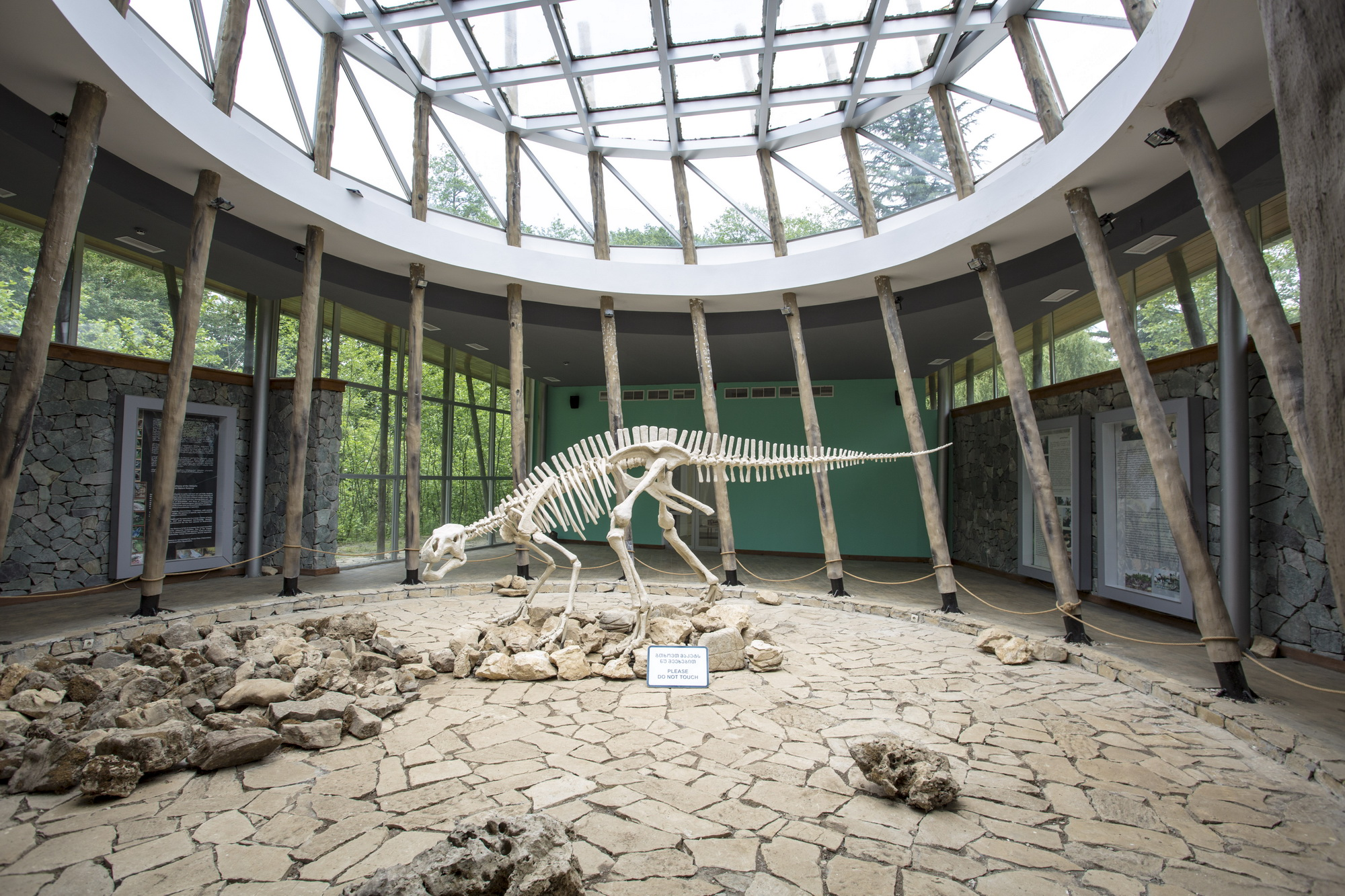 Complex protected area – Imereti Caves Protected Areas is located is west side of Georgia, Imereti region and includes four municipalities – Tskaltubo, Khoni, Terjola and Tkibuli. The total area of Imereti Caves Protected Areas amounts to 504.6 ha and includes Sataplia Nature Reserve (330 ha), Sataplia Managed Reserve (34 ha), Promethe Cave Natural Monuments (46.6 ha) and 17 Natural Monuments. Administrative building is located in Sataplia Managed Reserve. Here is administered Imereti Caves Protected Areas. The administrative building is located on the territory of the Satapliya. Out of Imereti Region Protected Areas is being administered. Remarkably, Imereti Caved Protected Areas Administration has one of the most well-arranged infrastructure on Sataplia Managed Reserve and Promethe Natural Monument. Sataplia Managed Reserve Infrastructure includes visitors center, conservation building of dinosaur footprint, exhibition hall, glass panoramic view-point, cafes, souvenir shops, well-arranged cave and marked trails. Visitors can observe fossilized dinosaur footprints, karst caves, rock trail, Colchis forest, panoramic viewpoints.